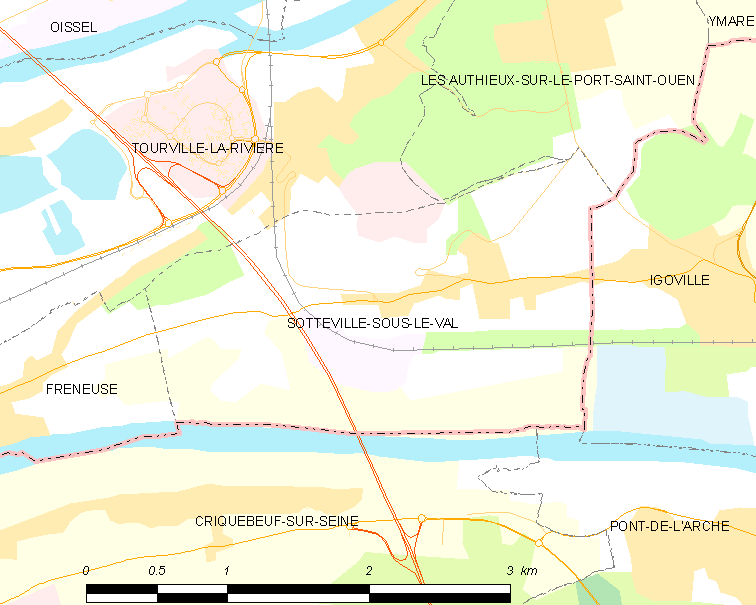 Map of French municipality Sotteville-sous-le-Val